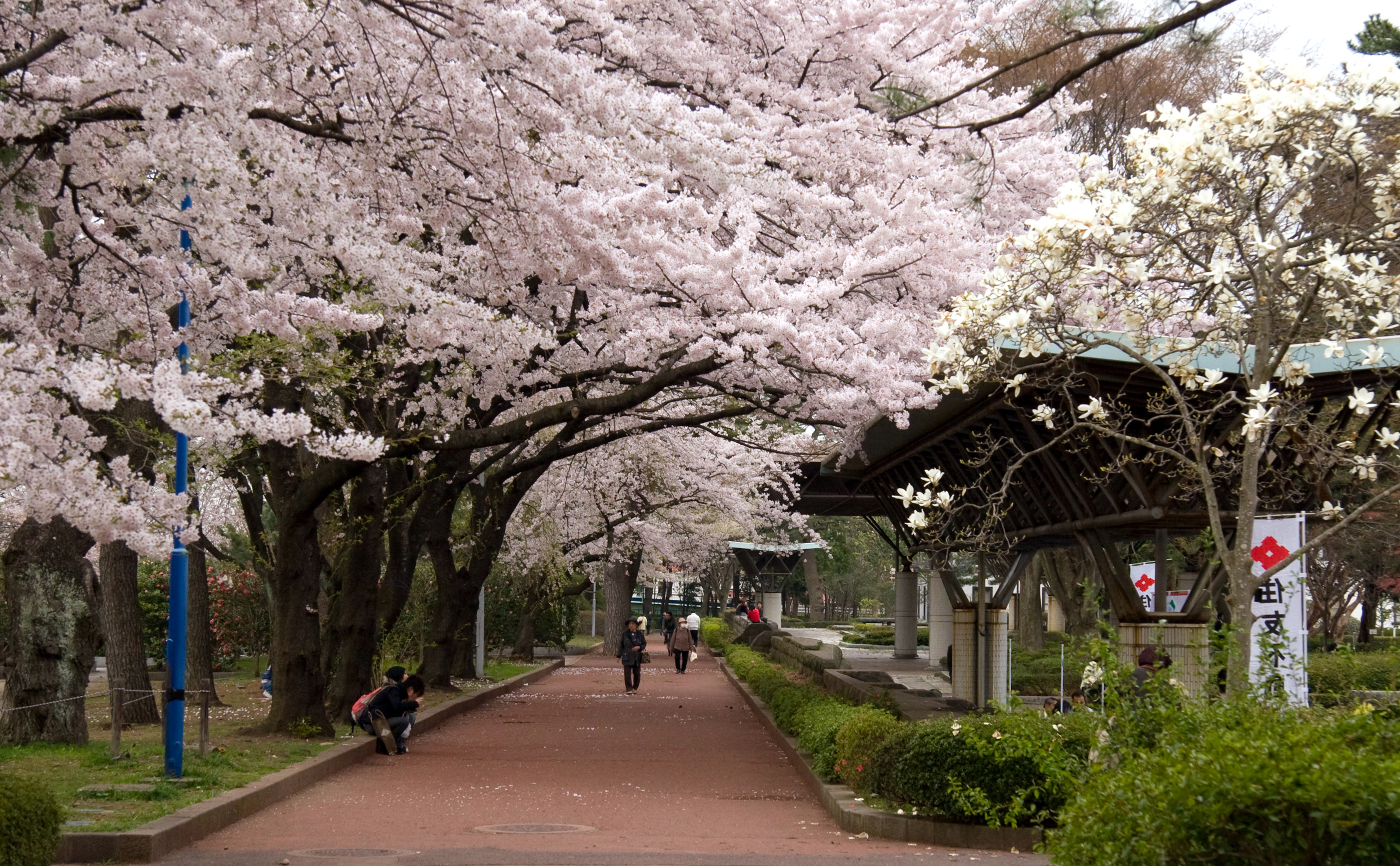 Tsutsujigaoka Park, Sendai, Miyagi, Japan, in the cherry blossom season.